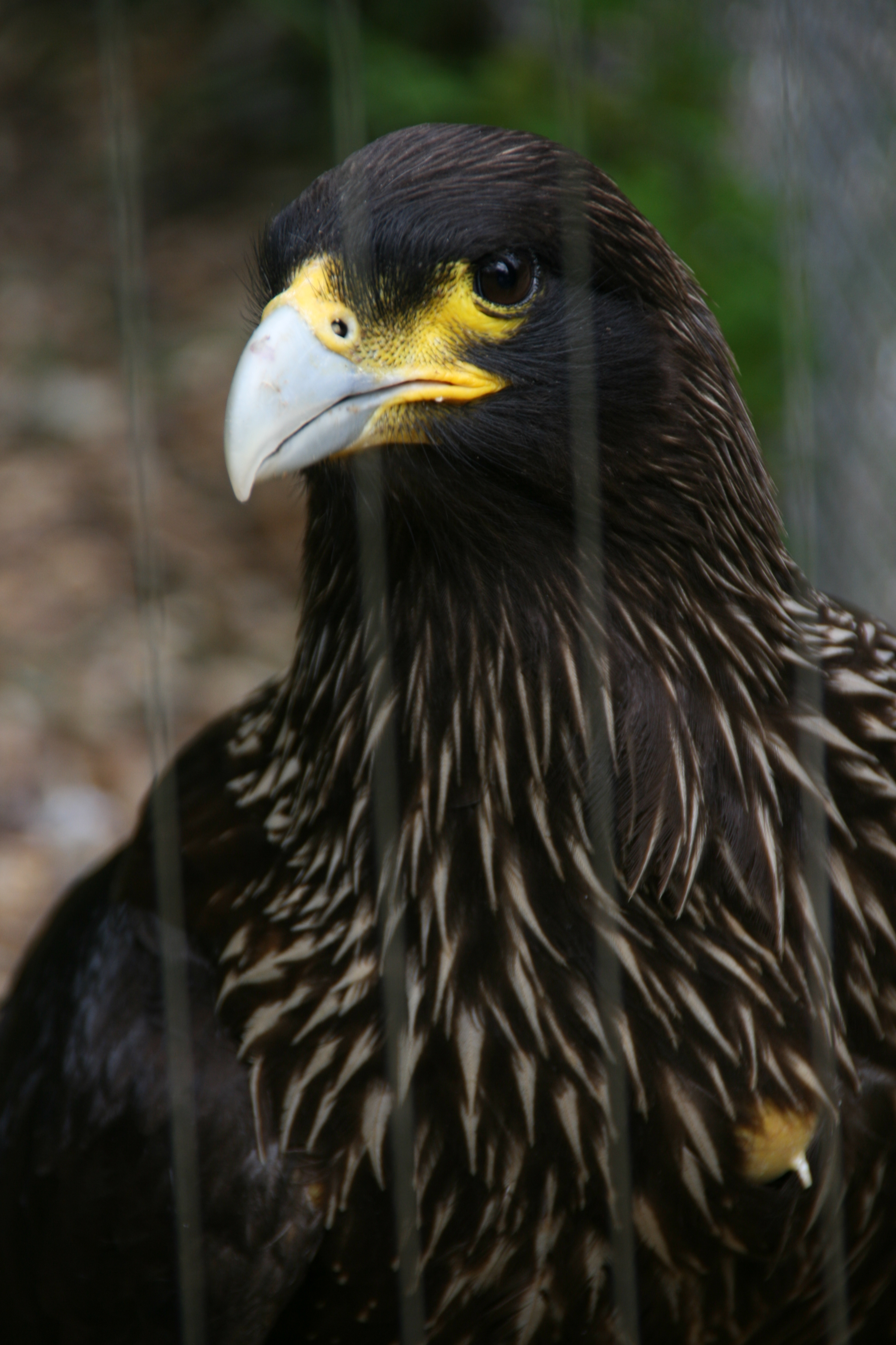 A Striated Caracara taken at the London Zoo.